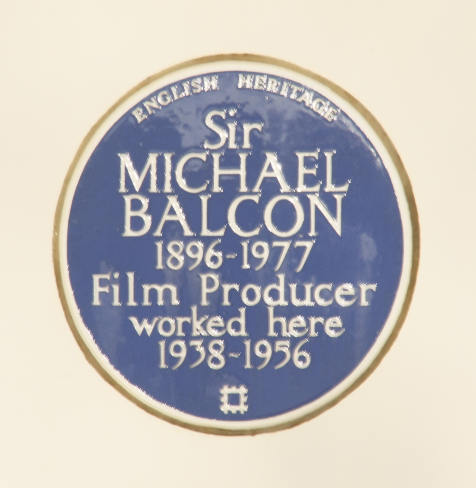 A Blue Plaque to Sir Michael Elias Balcon on the front wall of the White Lodge at Ealing Sudios. He produced some of his best work here.